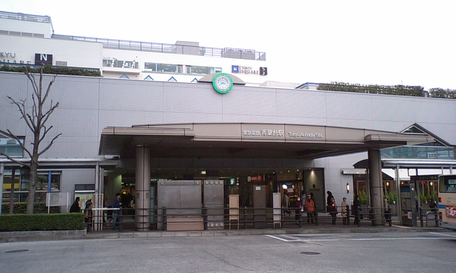 Station building of Aobadai Station.